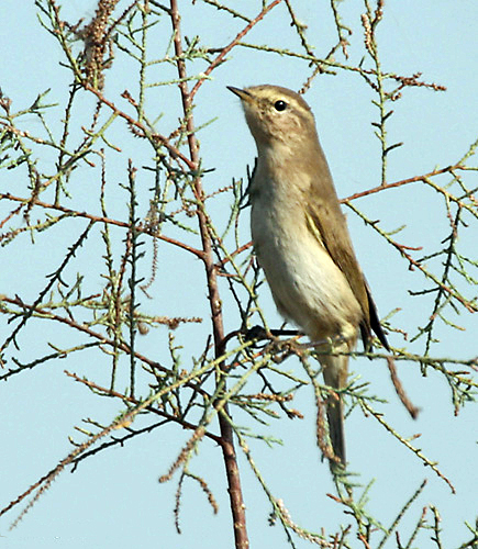 Siberian Chiffchaff Phylloscopus collybita at Hodal in Faridabad District of Haryana, India.